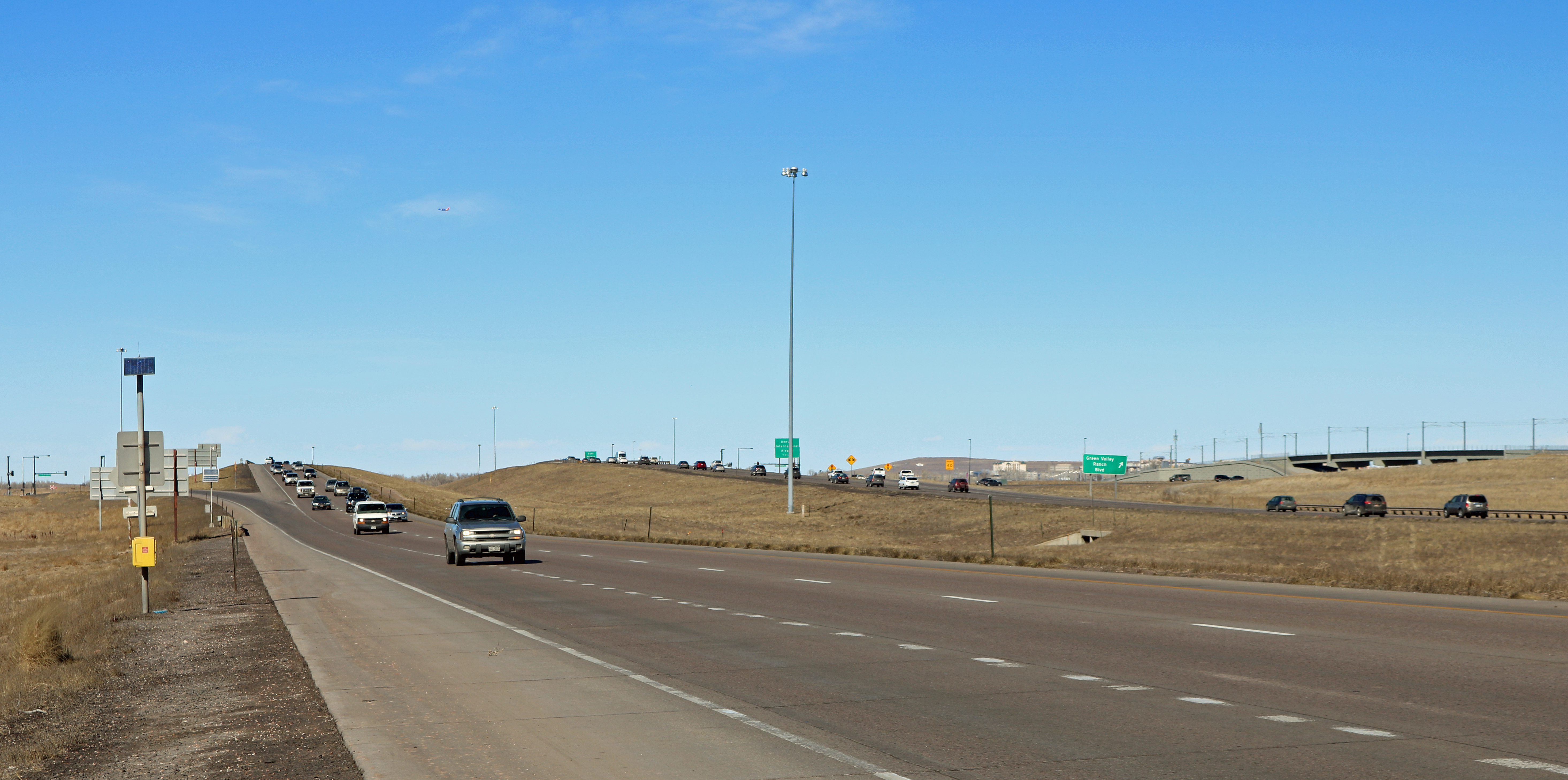 A view of Peña Boulevard in Denver, Colorado. The view is to the north, from just south of Green Valley Ranch Boulevard. The bridge at right center carries RTD's A Line.